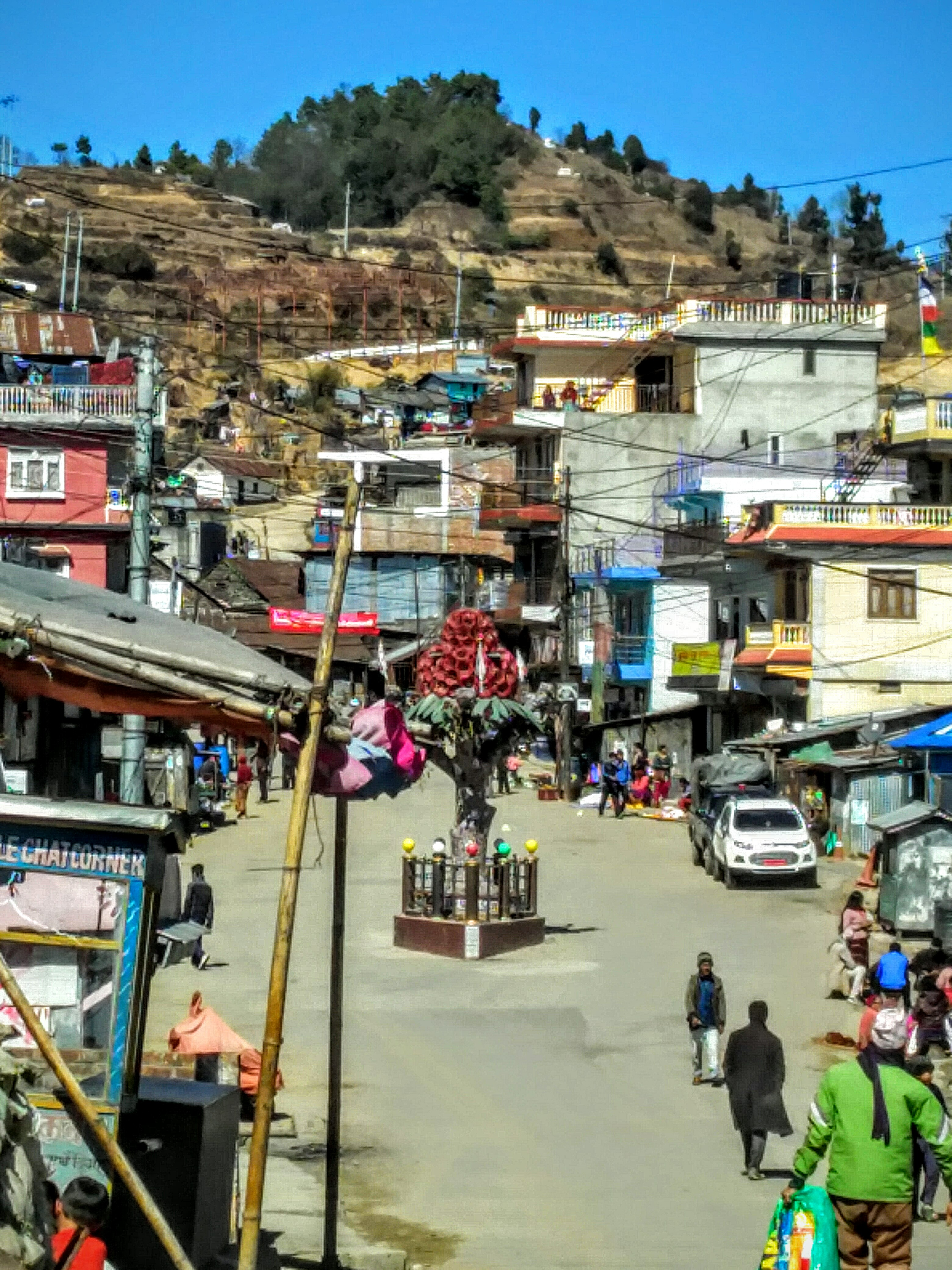 View of Basantapur Bazaar in Terhathum